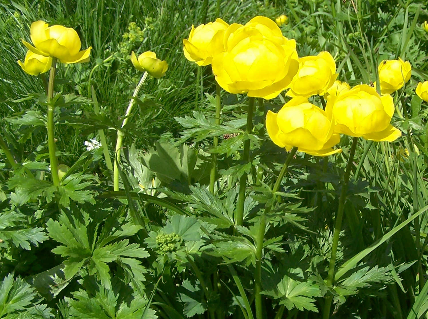 Trollius europaeus subsp. transsilvanicus (habitat: Tatra Mountains, Czerwone Wierchy)